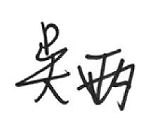 This is Ng Yu's signature.